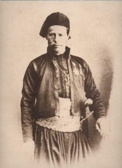 Young Youssef Bey Karam